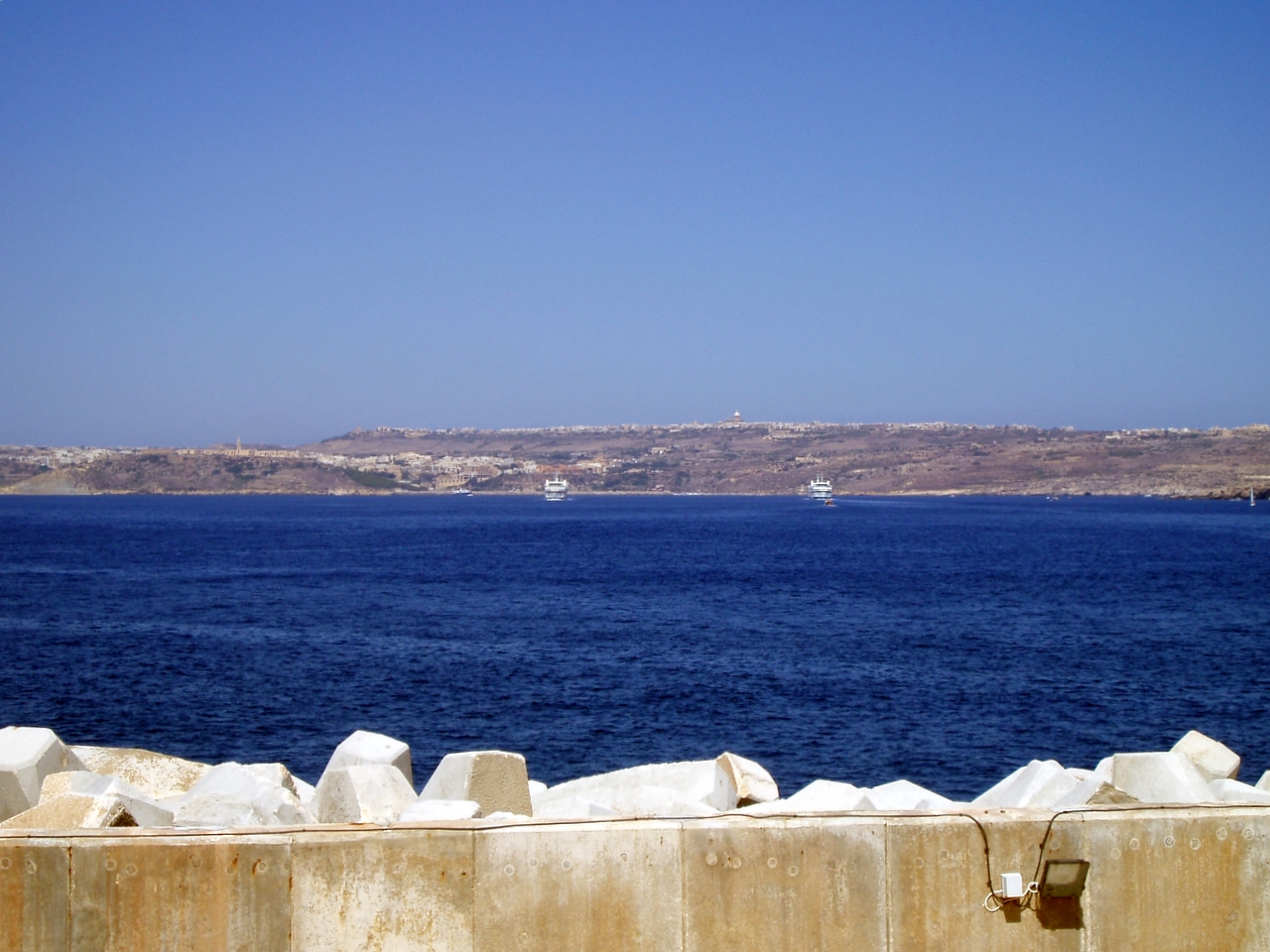 The following is the author's description of the photograph quoted directly from the photograph's Flickr page."Gozo from Malta "